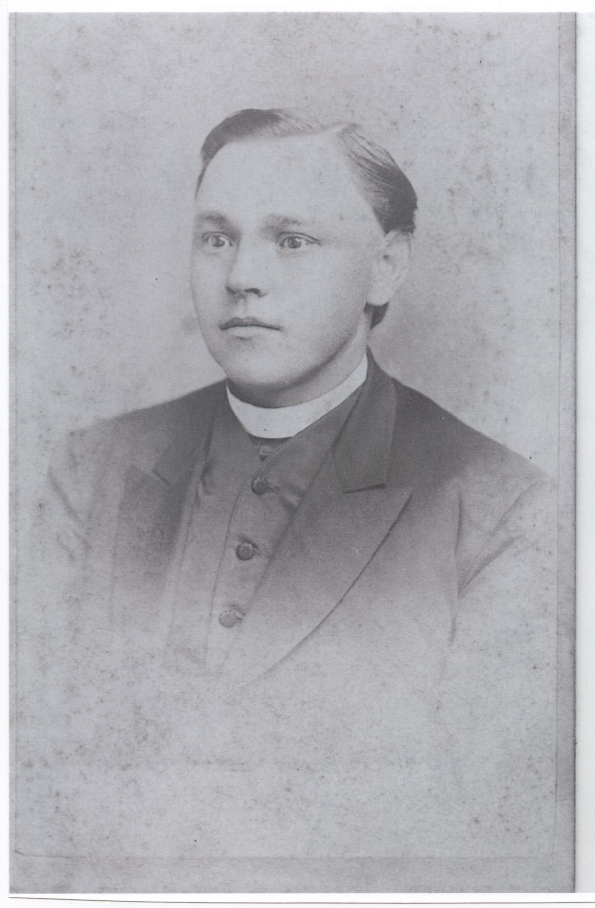 Joseph Bihn, Tiffin Ohio 1822-1893